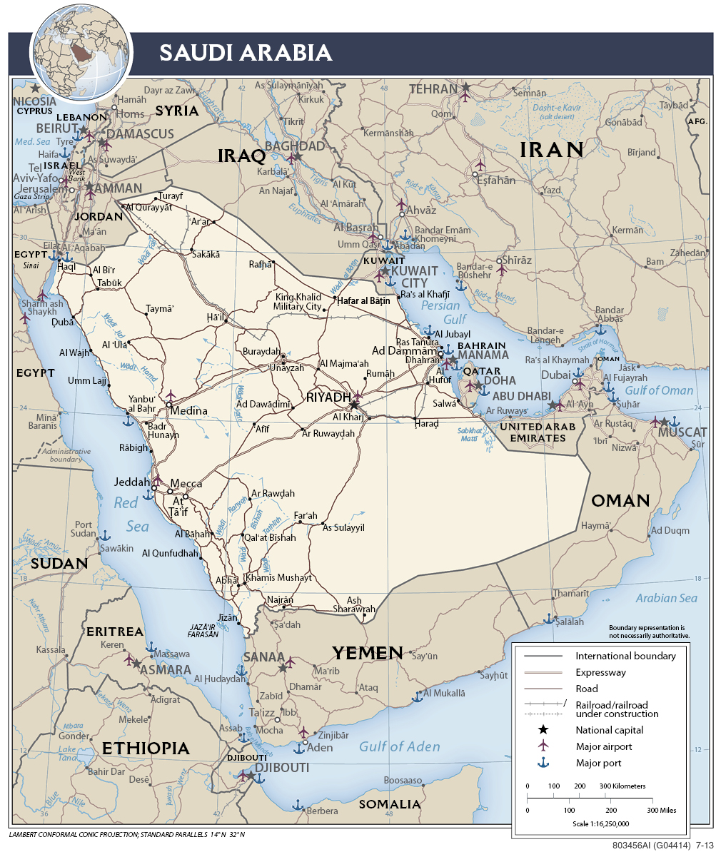 Transport system in Saudi Arabia, 2013.